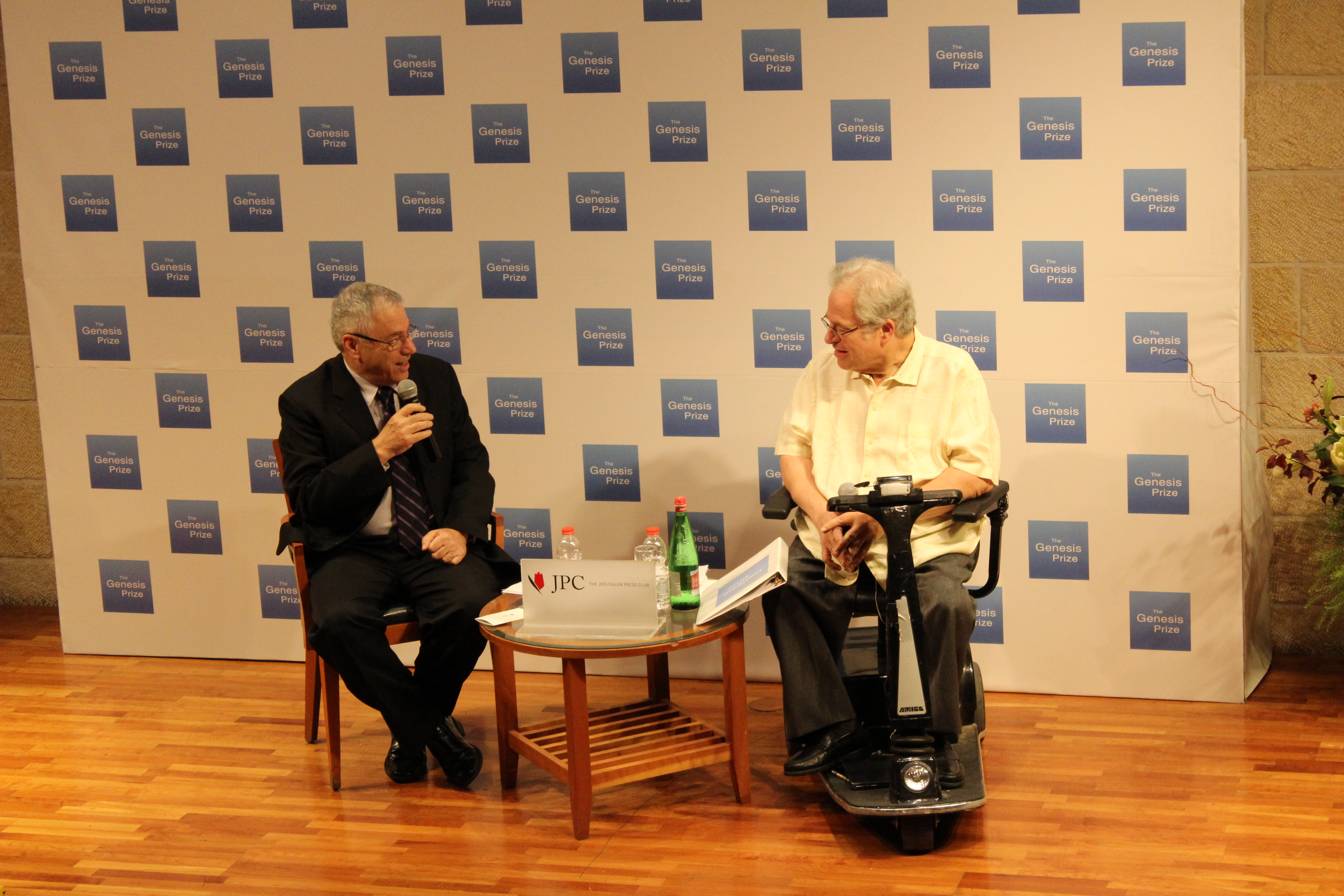 In front of dozens of Israeli and international journalists, Uri Dromi, Director General of JPC, interviewed world renowned violinist Yitzhak Perlman, recipient of the 2016 Genesis Prize and Academy Award winner, actress Dame Helen Mirren, who later moderated the award ceremony. The press conference ended with Dromi giving both Perlman and Dame Helen honorary JPC membership cards.